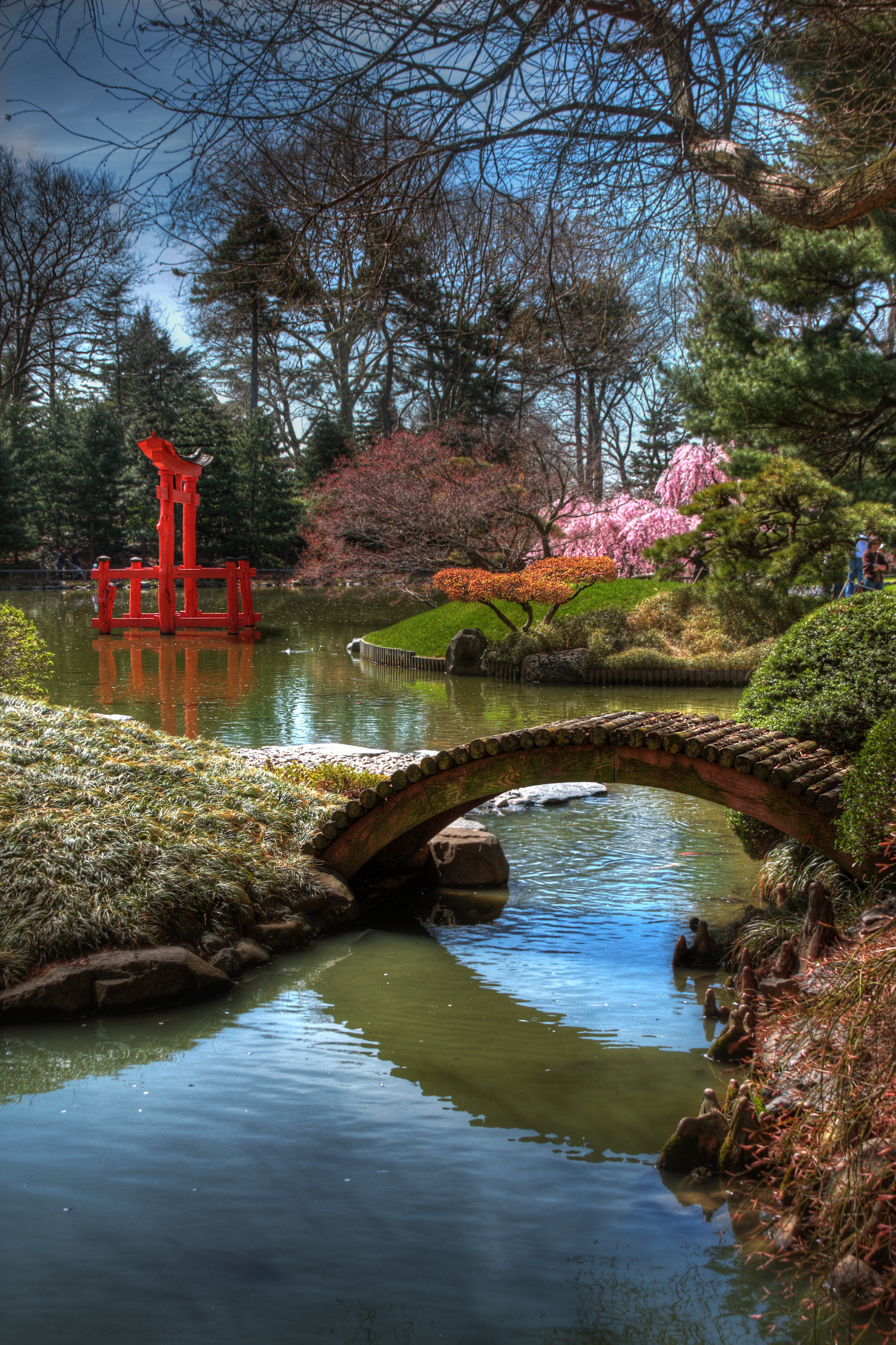 The Japanese Hill-and-Pond Garden as seen from the far end, looking towards the viewing pavilion and the cherry trees. Also shown in this photograph is the taiko-bashi, or the drum bridge, which, when reflected in the water, resembles a Japanese drum known as a taiko, or a large Japanese barrel drum.